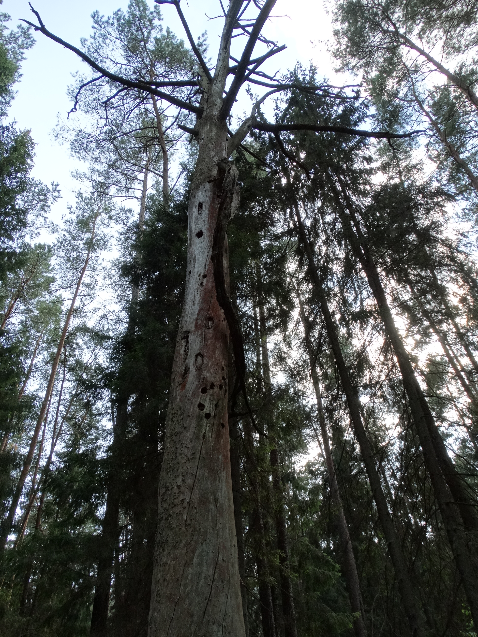 Pine tree with holes, Šilelis, Anykščiai district, Lithuania